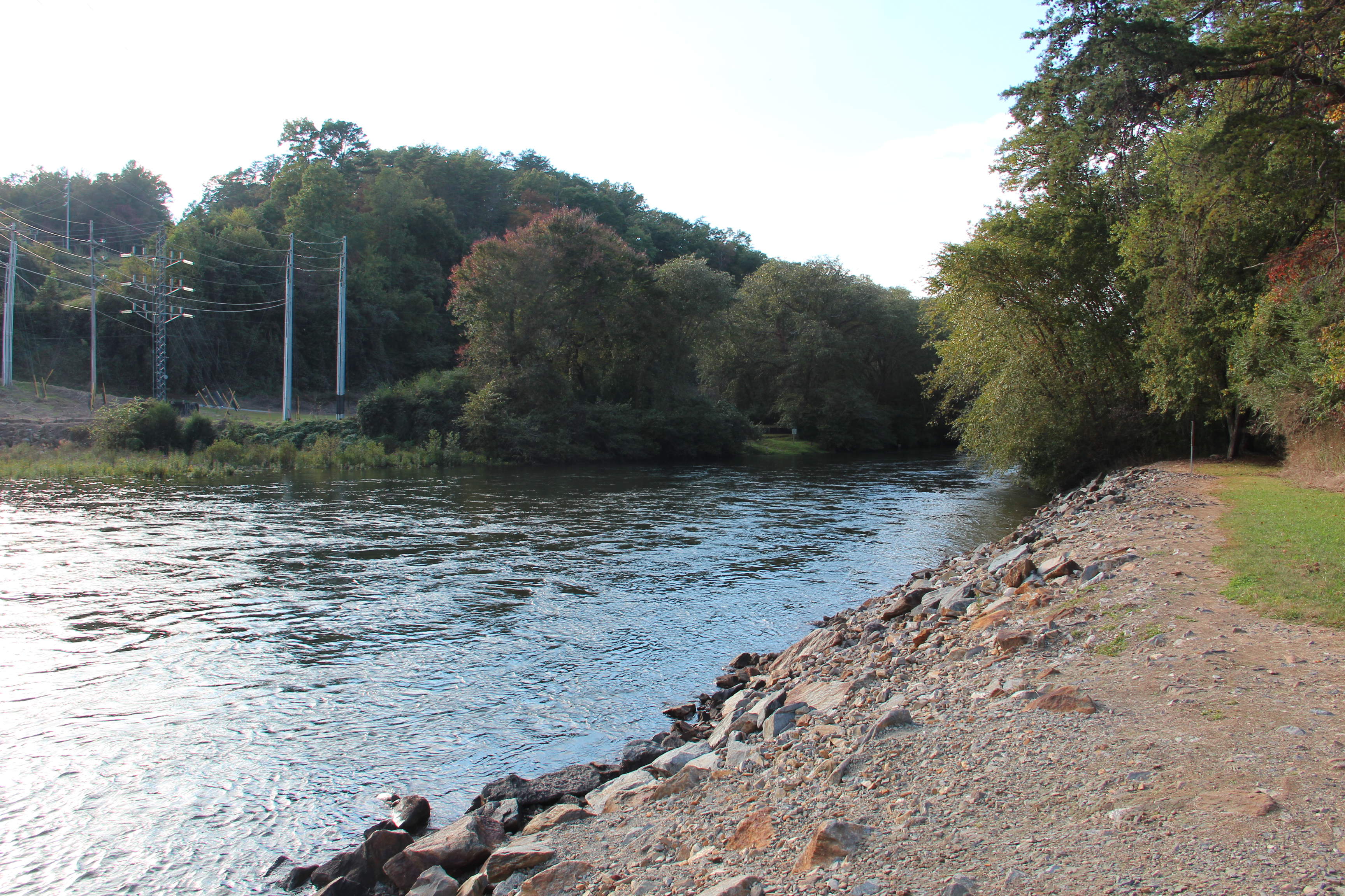 Toccoa River, just north of the Blue Ridge Dam